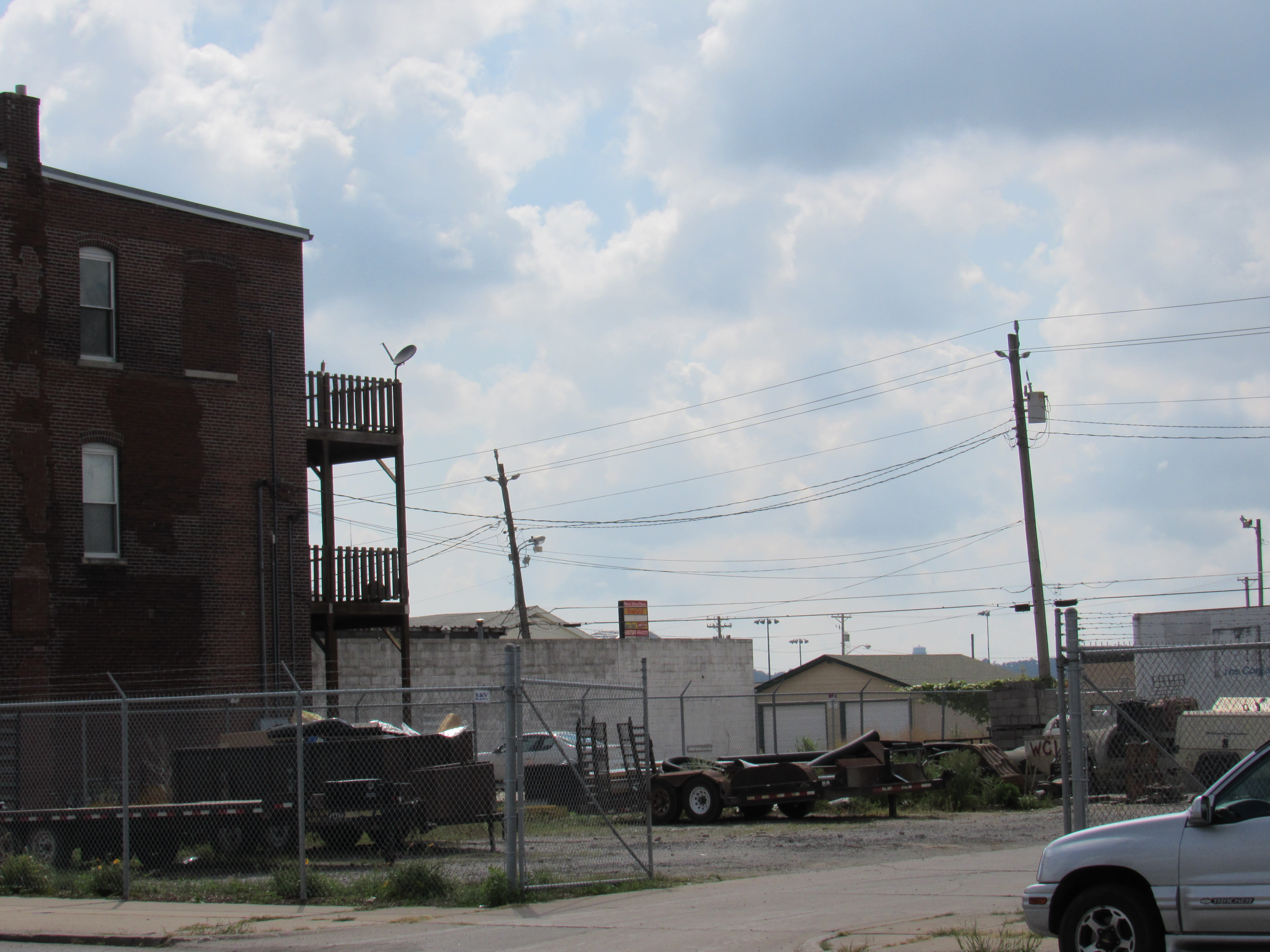 The location of the former building at 1119-1121 W. Third Street in Davenport, Iowa, which was listed on the National Register of Historic Places.